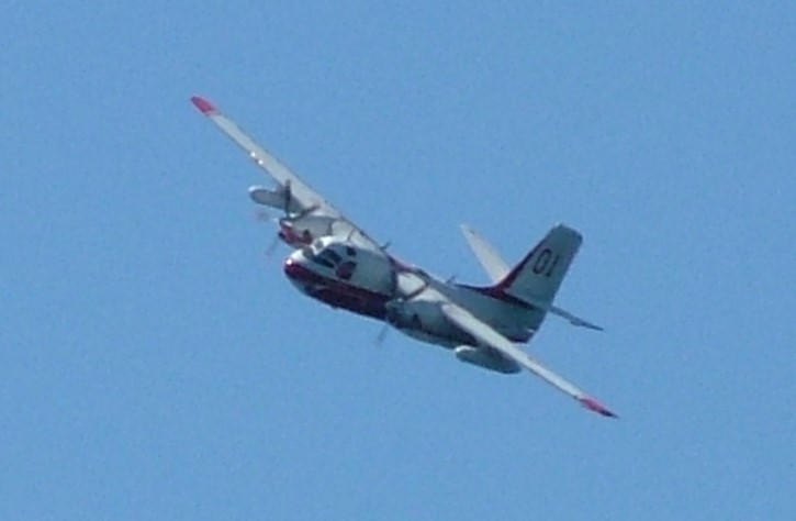 Photo of a Tracker aircraft used by French Sécurité Civile to fight fires.